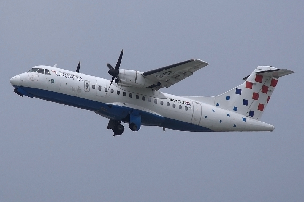 Croatia Airlines ATR 42-300 (9A-CTS) at Zürich Airport